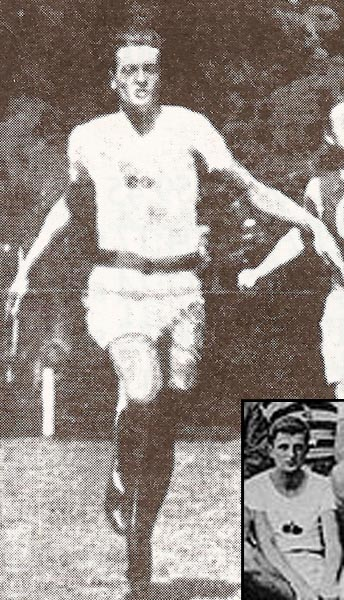 Maxwell Long, winner at the 1900 Olympic Games Photography collage, adapted reproduction, no restrictions on use